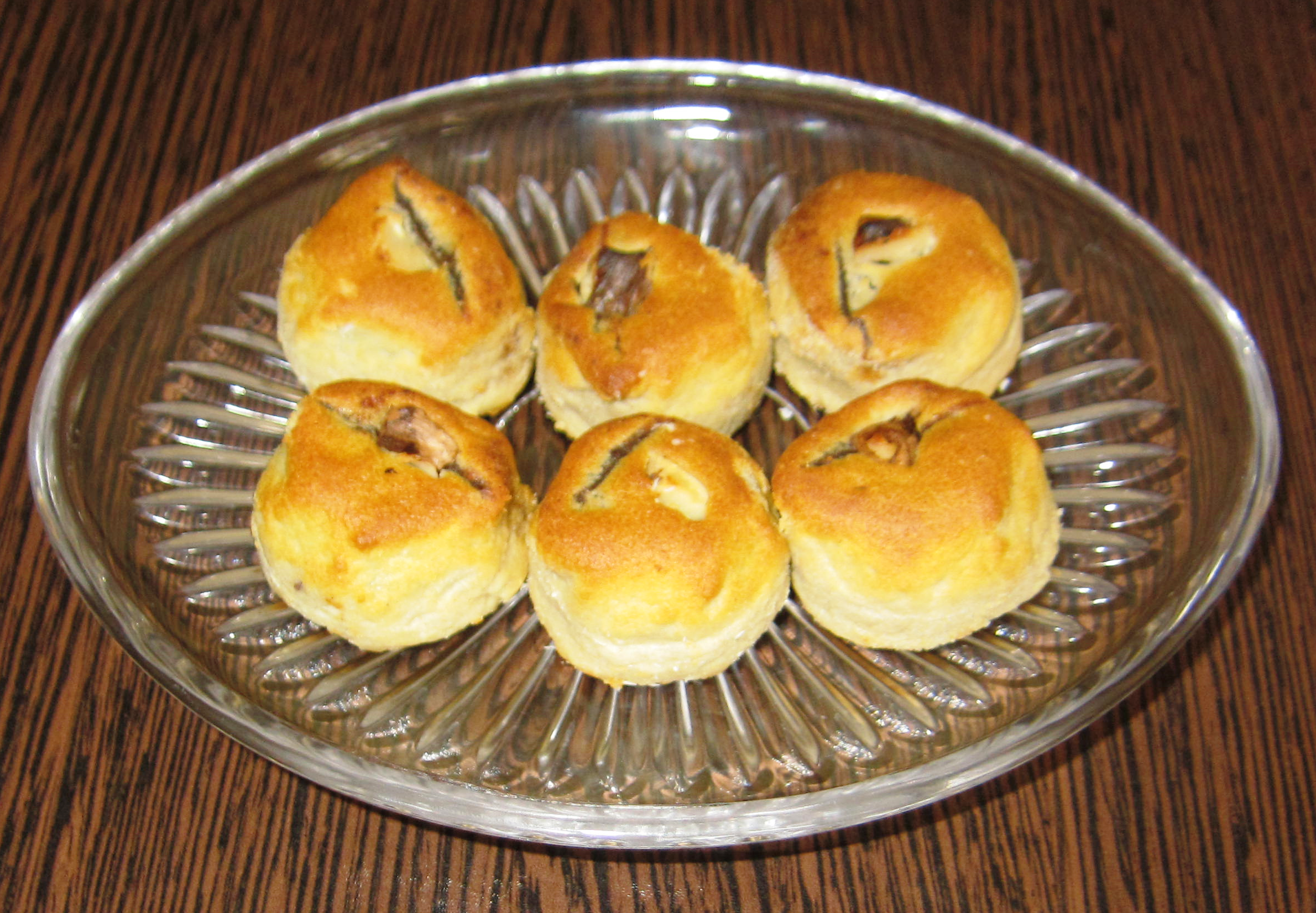 Nan khormai, Iranian pastry and a souvenir of Kermanshah, made from date